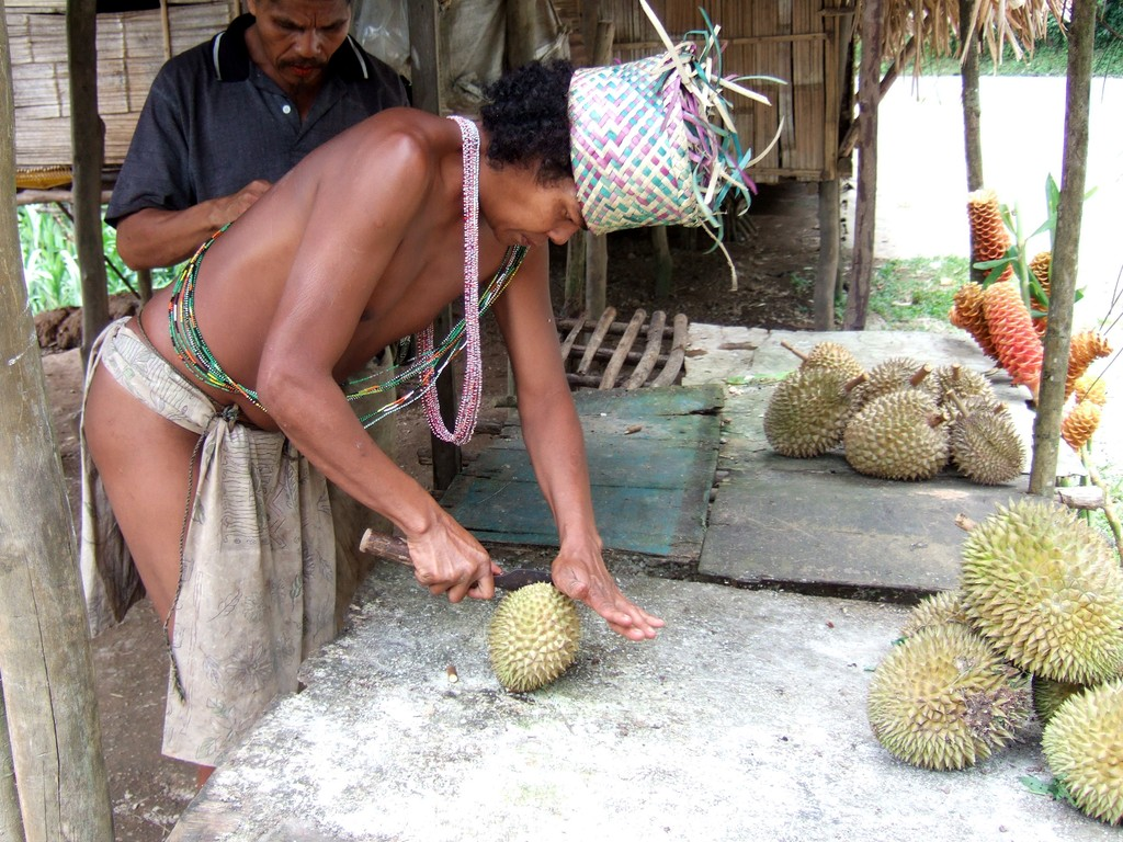 The durian is a foul-smelling fruit that locals like to eat. The flesh of the spiny fruit looks whitish and tastes very creamy. Because of its penetrating smell, the fruit is banned in hotels, buses and planes. Semai man from Cameron Highlands.